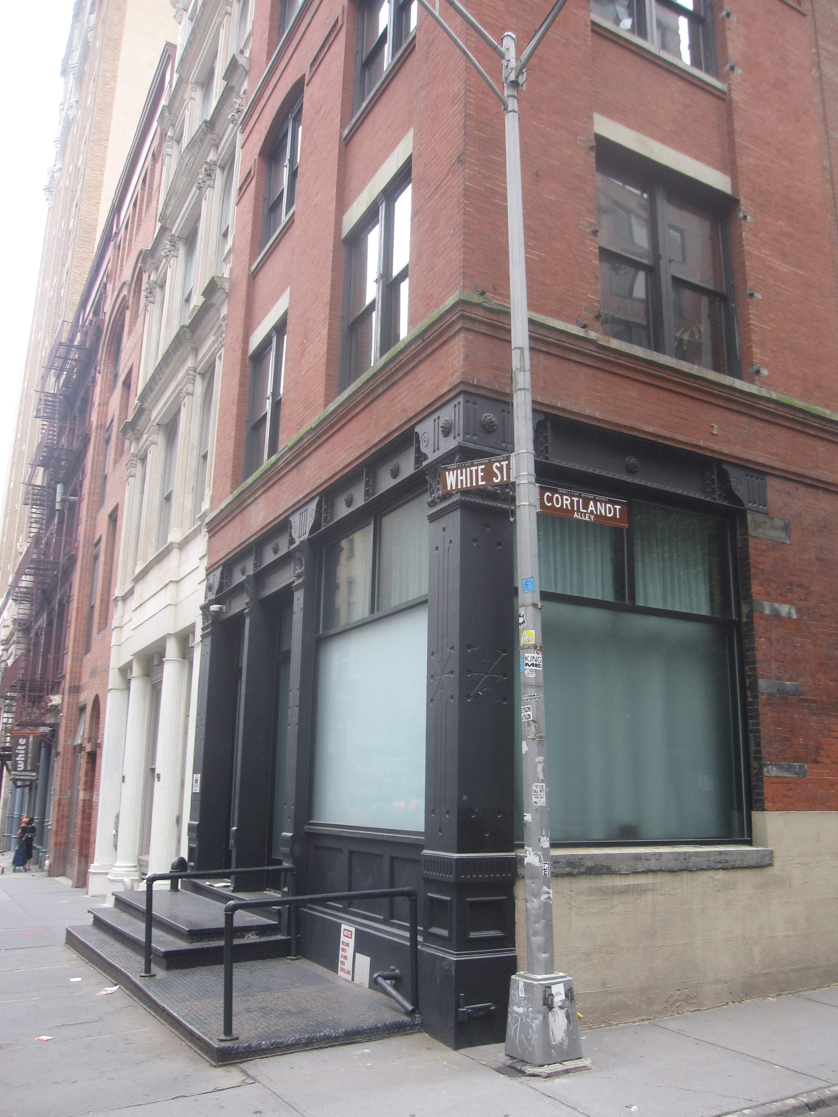 The Mudd Club was a TriBeCa nightclub, a central fixture in the downtown punk scene from 1978 to 1981.